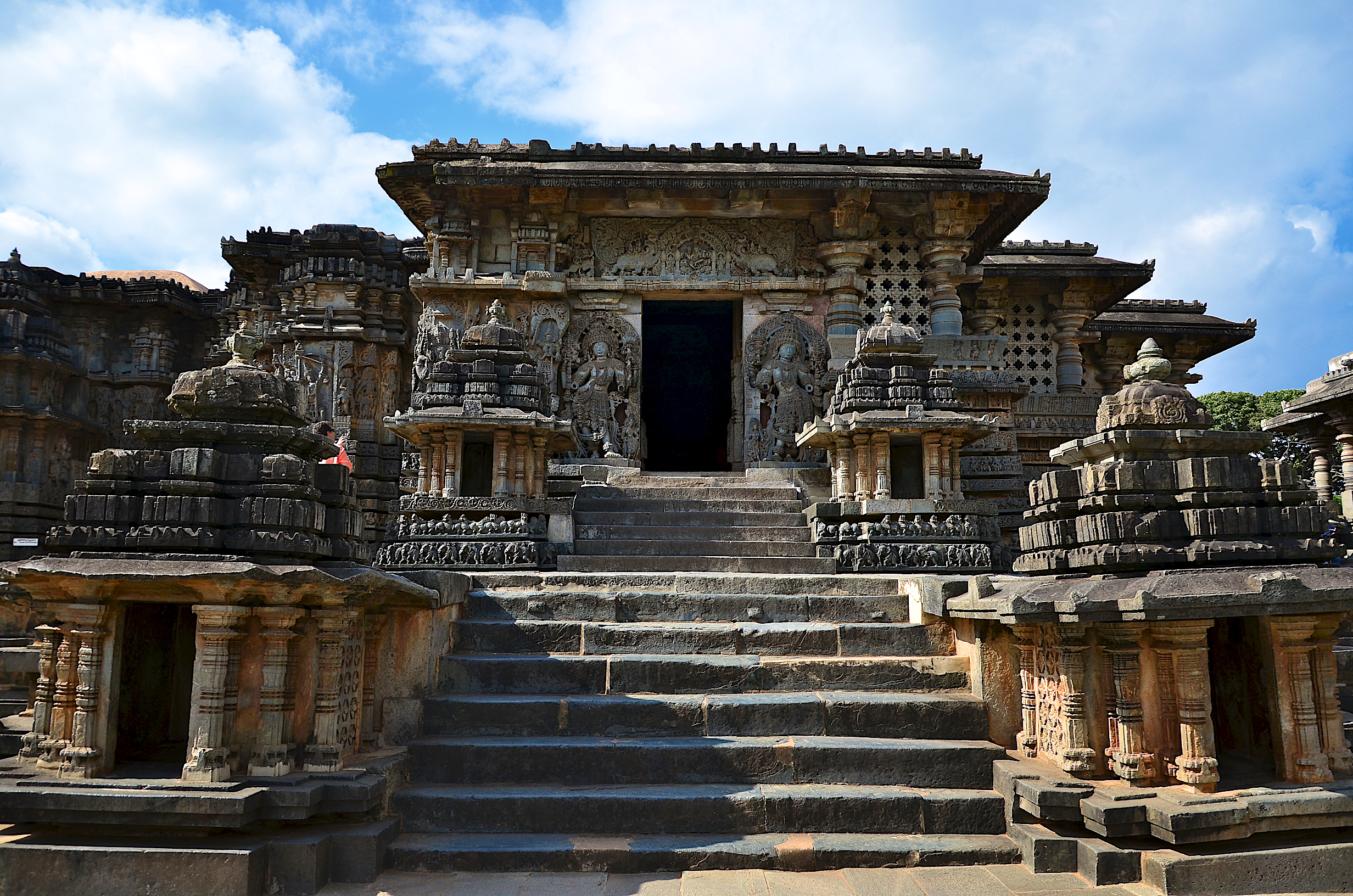 South Entrance